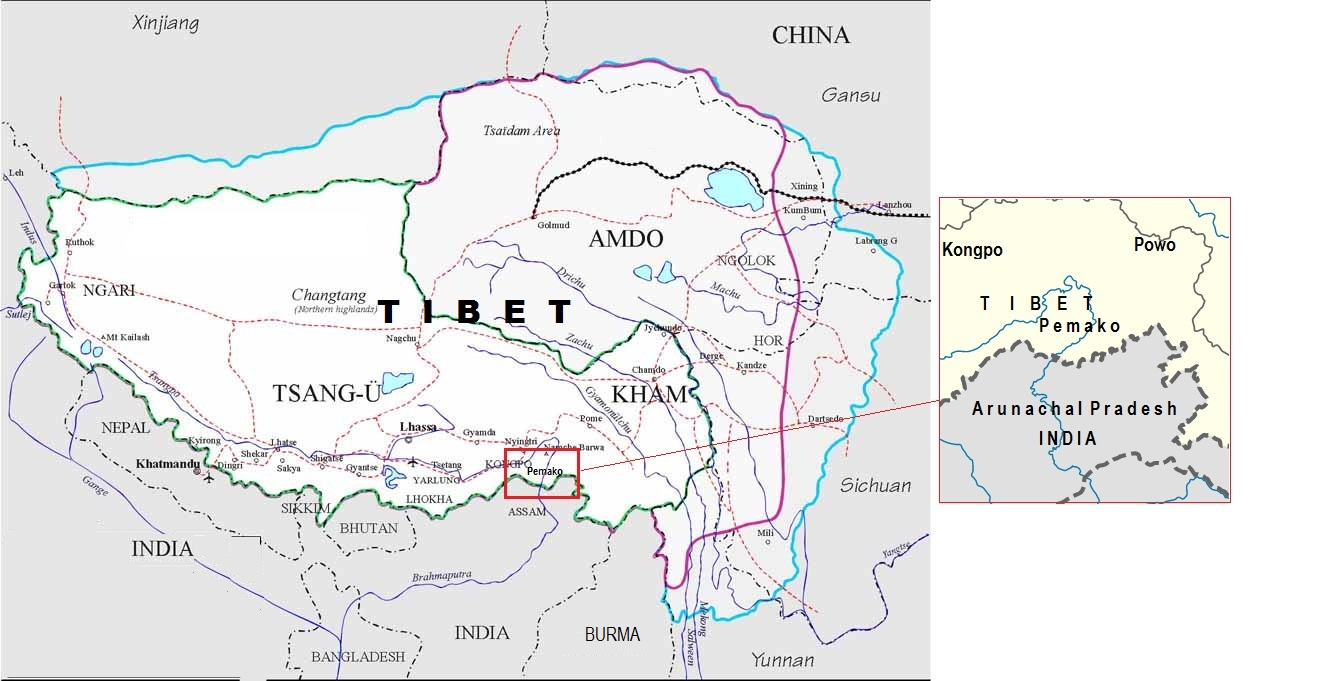 Pemako is located in south east Tibet near Indian border